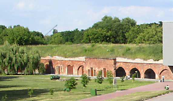 Brest Fortress. A stretch of the rampart on the Kobrin Fortification by the contemporary main entrance to the War Memorial.